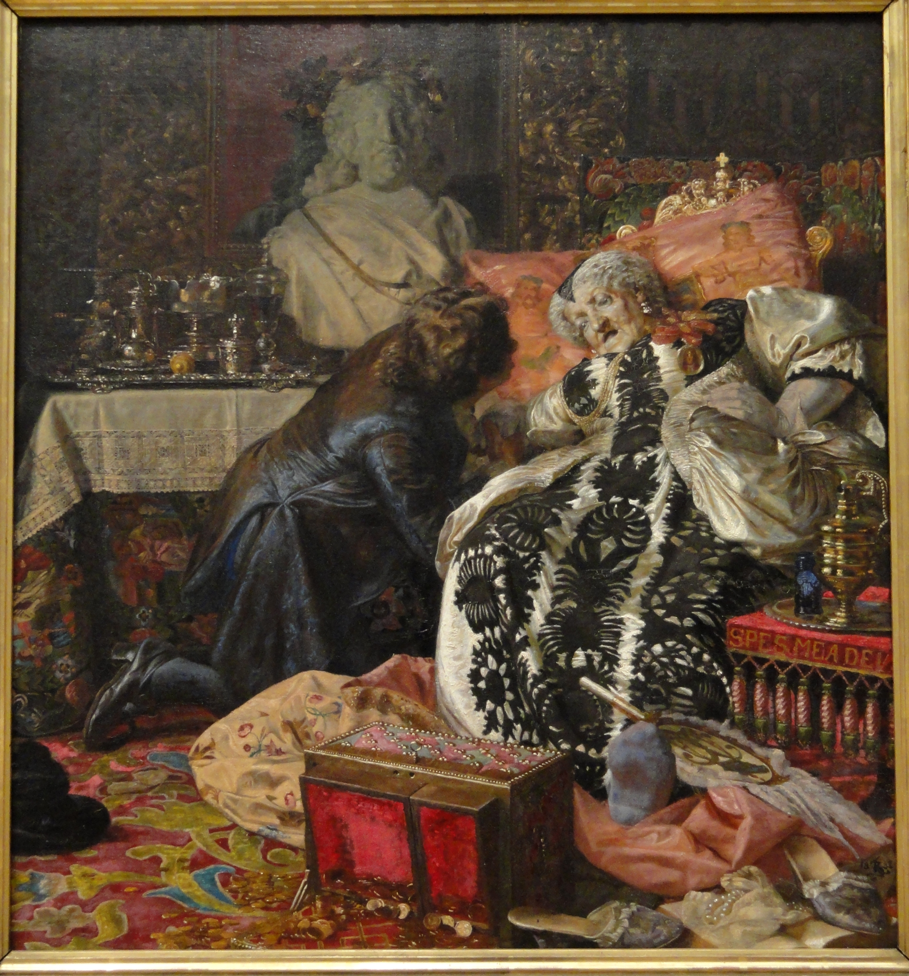 Depicted person: Sophie Amalie of Brunswick-Lüneburg (1628-1685) Exhibit in the Statens Museum for Kunst, Copenhagen, Denmark. Photography was permitted without restriction of all artworks old enough to be in the public domain. This artwork is in the public domain because its creator died more than 70 years ago.